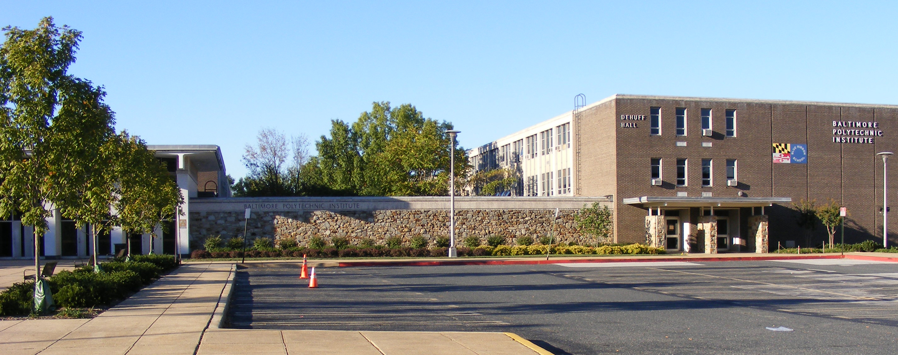 Baltimore Polytechnic Institute's current building on Falls Road